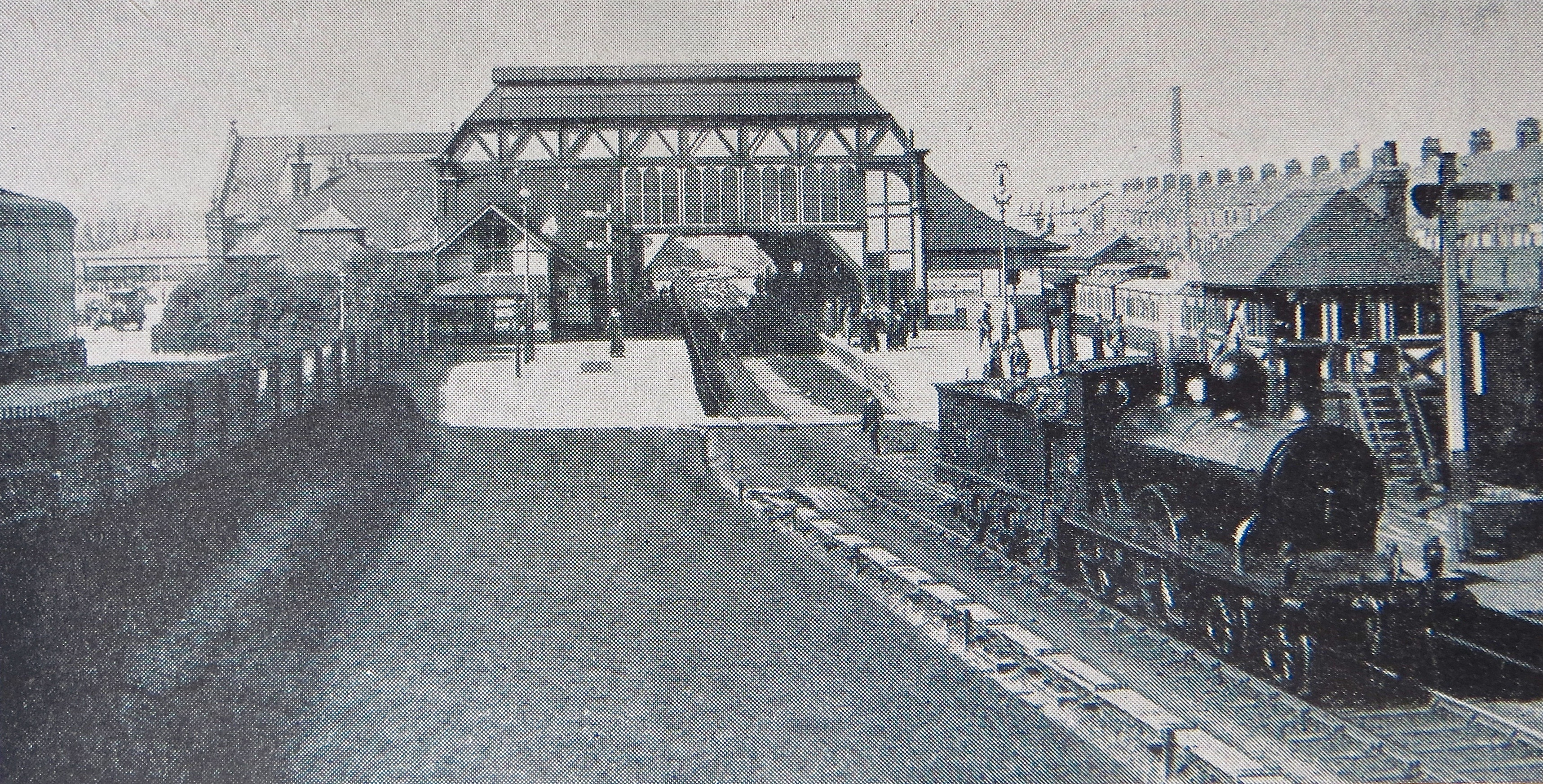 Barrow Central from the south about 1910